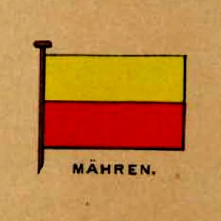 Moravian land colours